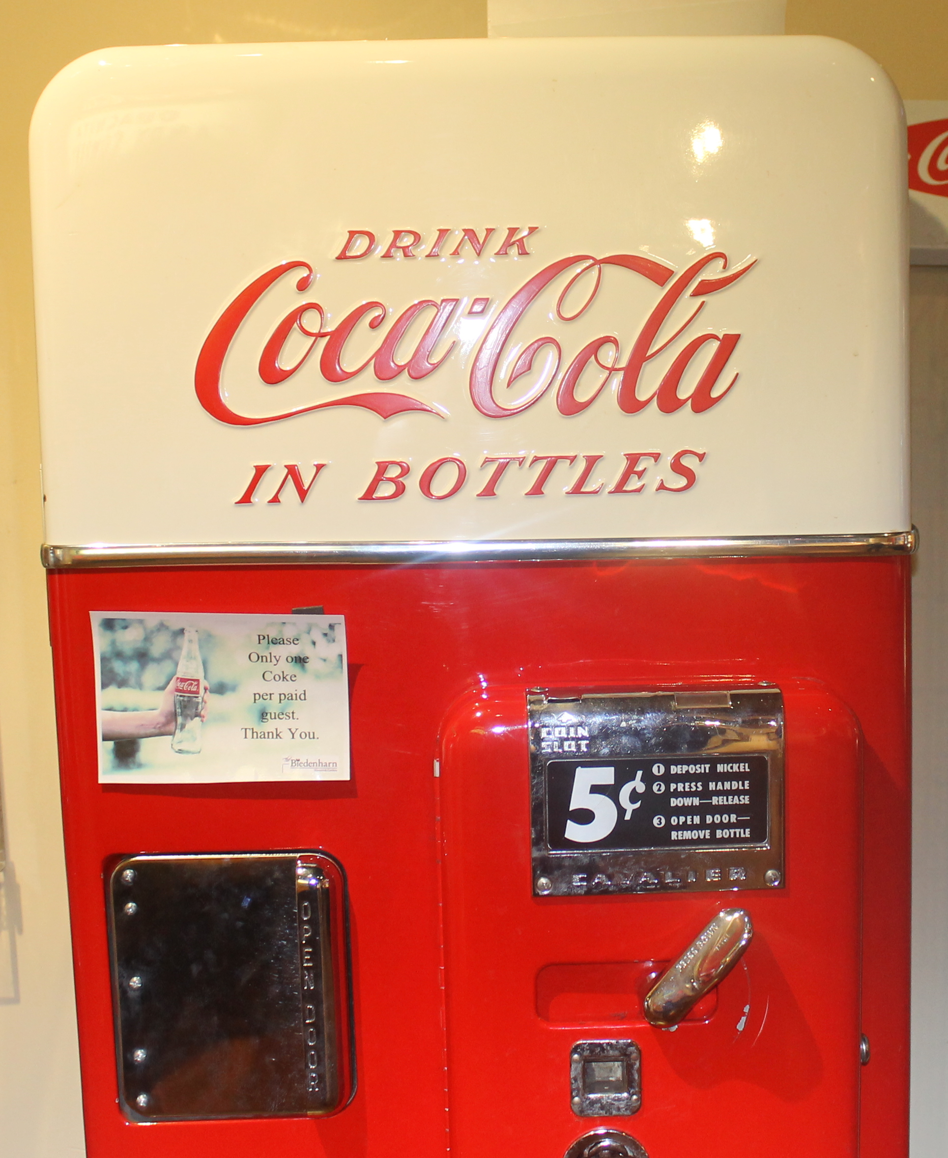 Early Coca-Cola Bottling machine at Biedenharn Museum and Gardens in Monroe, LA